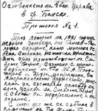 Bansco Protestant Church first document